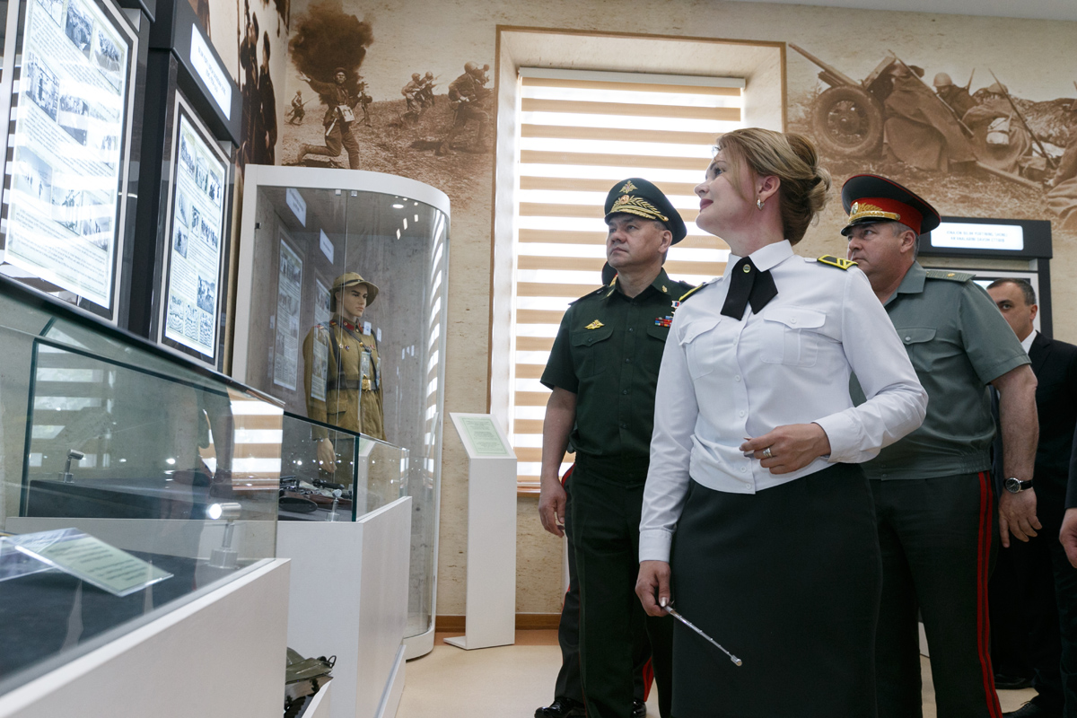 Visit of the Minister of Defense of the Russian Federation in Uzbekistan.